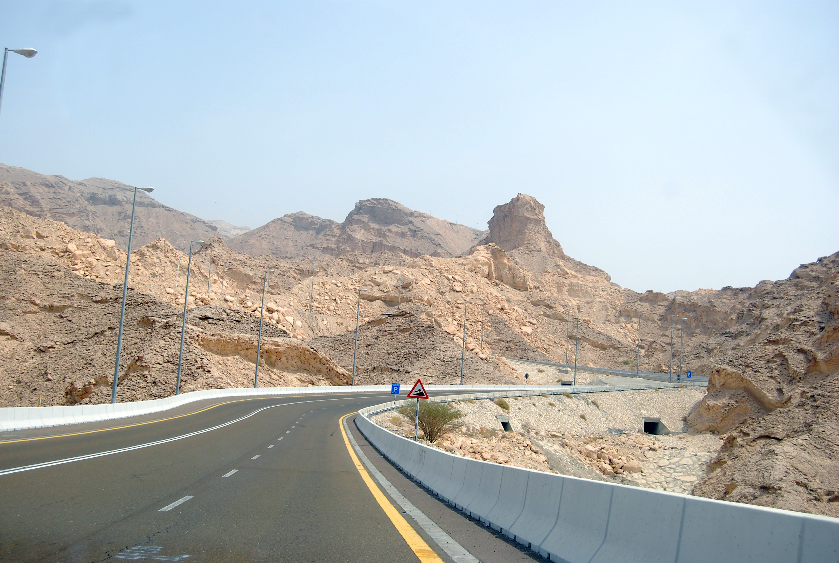 View of the approach road to the top of Jebel Hafeet mountain, taken while driving up the mountain